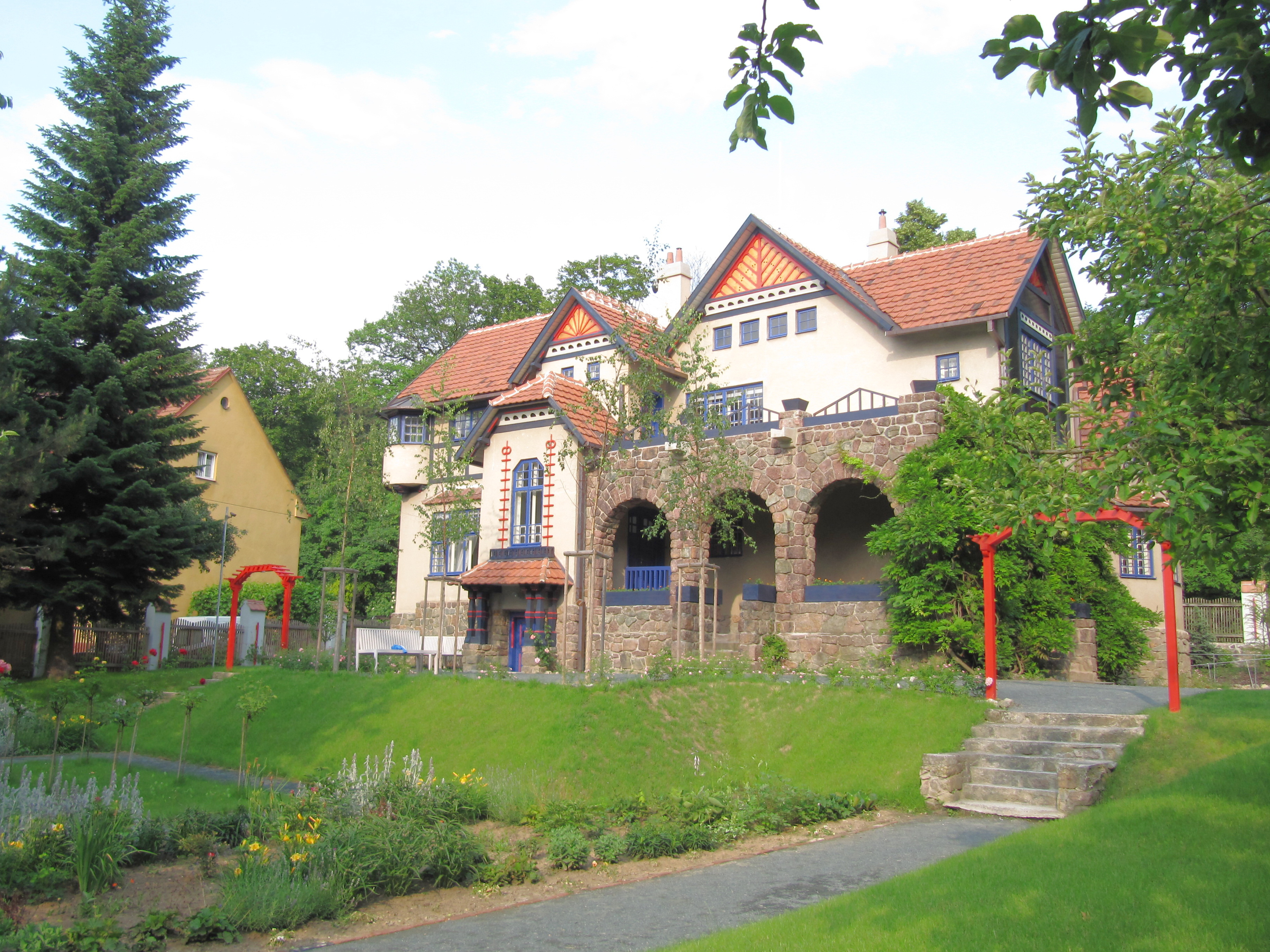 Brno, part Žabovřesky, Czech Republic. Jana Nečase Street. Villa of Dušan Jurkovič, garden.